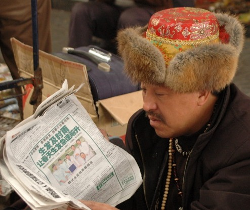 Portraits Beijing